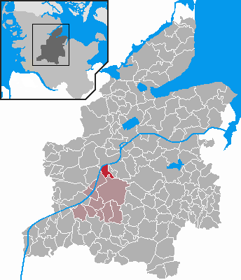 Locator maps of municipalities in Schleswig-Holstein - District Rendsburg-Eckernförde